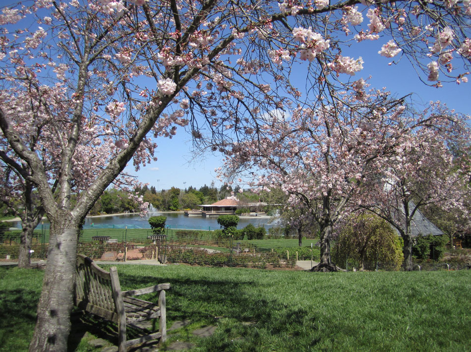 Ward Garden - part of the six-acre area that makes up the Gardens at Heather Farm Park